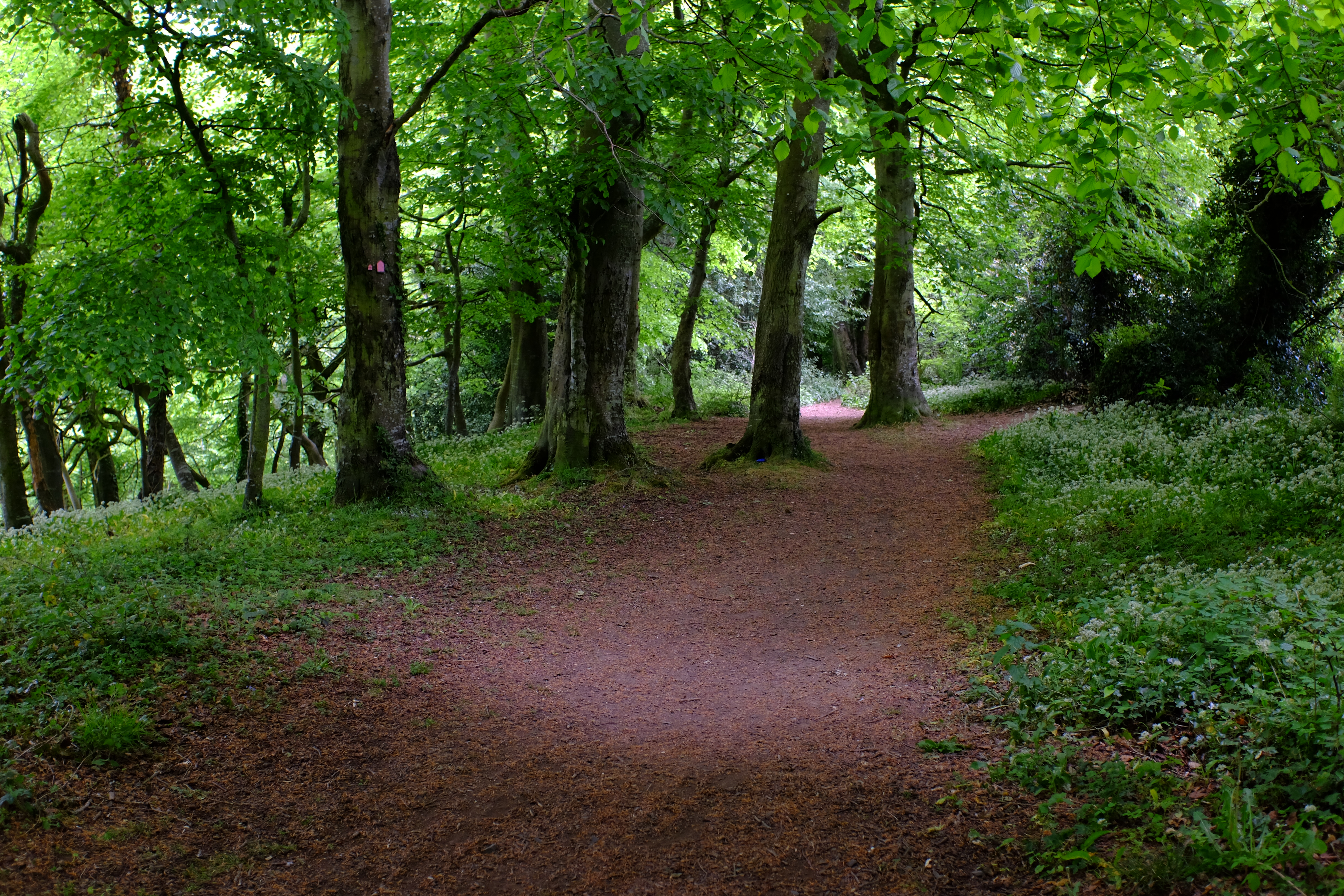 Path in Ward River Valley Park near Knocksedan, Swords.